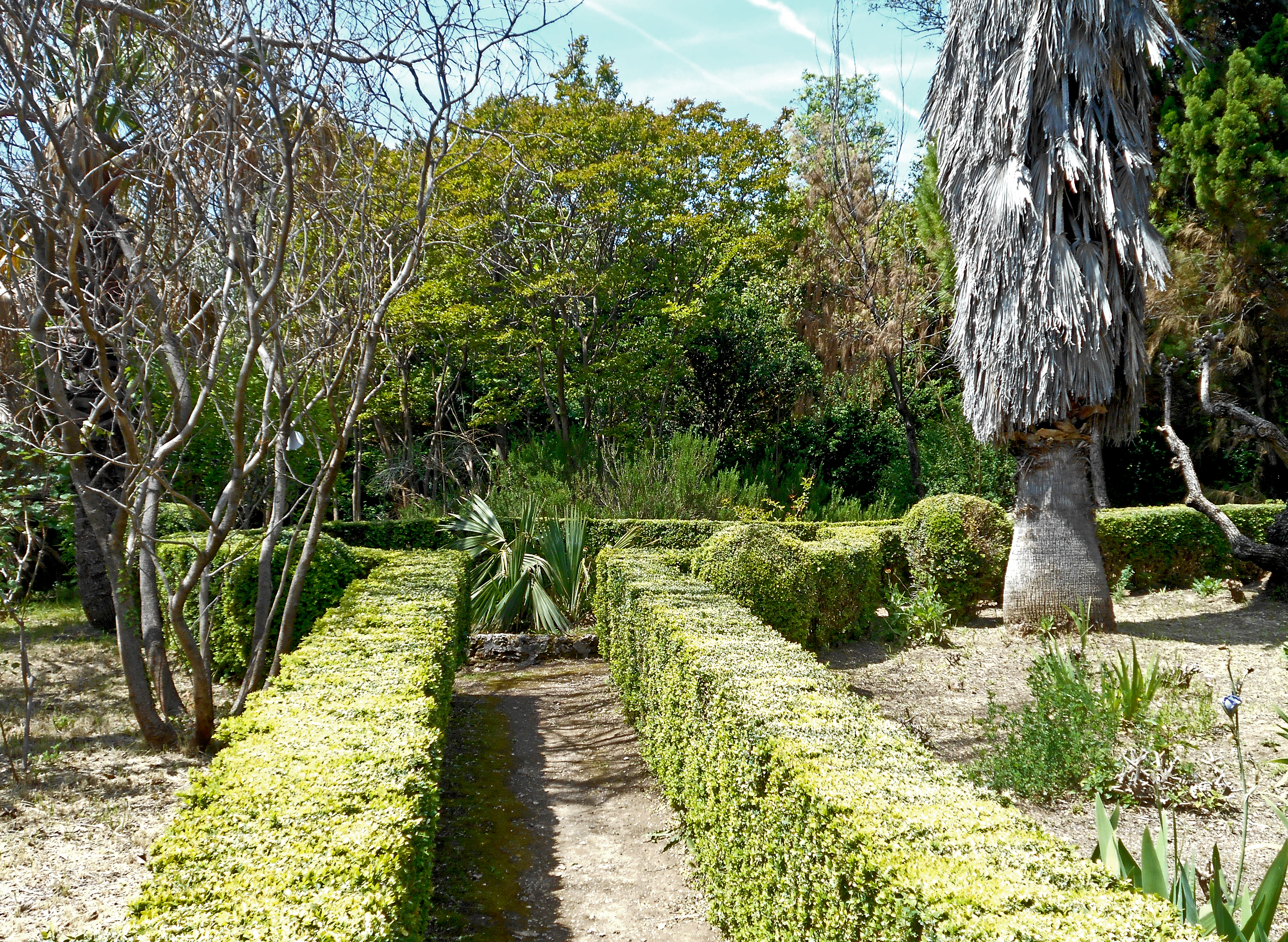 Detail of a Renaissance garden. Trsteno arboretum, Croatia